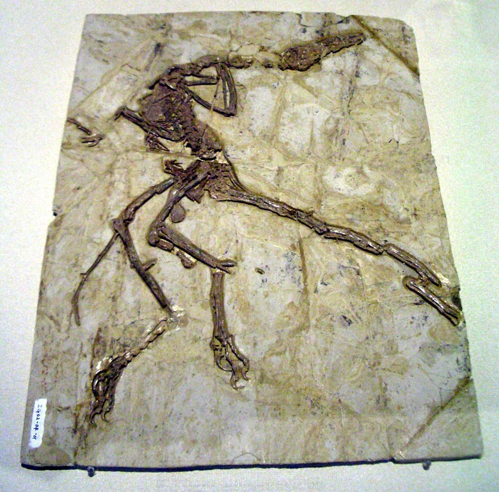 Dromaeosauridae fossil displayed in Hong Kong Science Museum